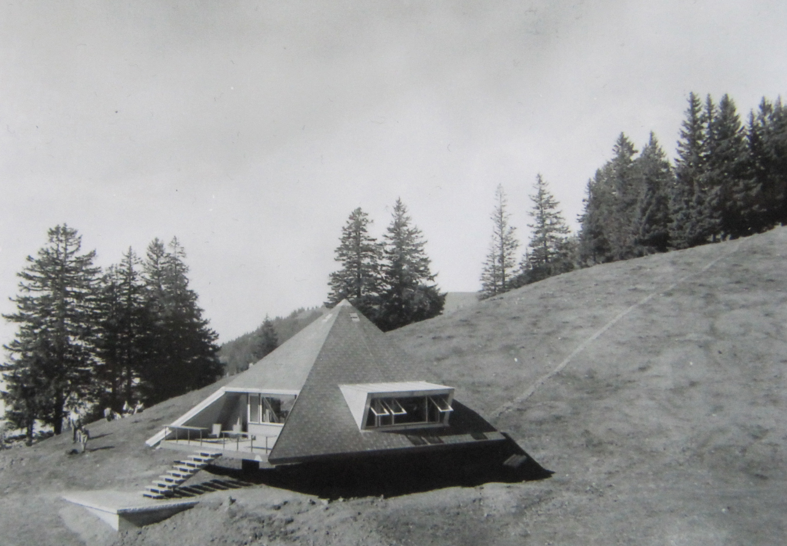 Tent house on the Rigi, Switzerland (Architect Justus Dahinden 1955)